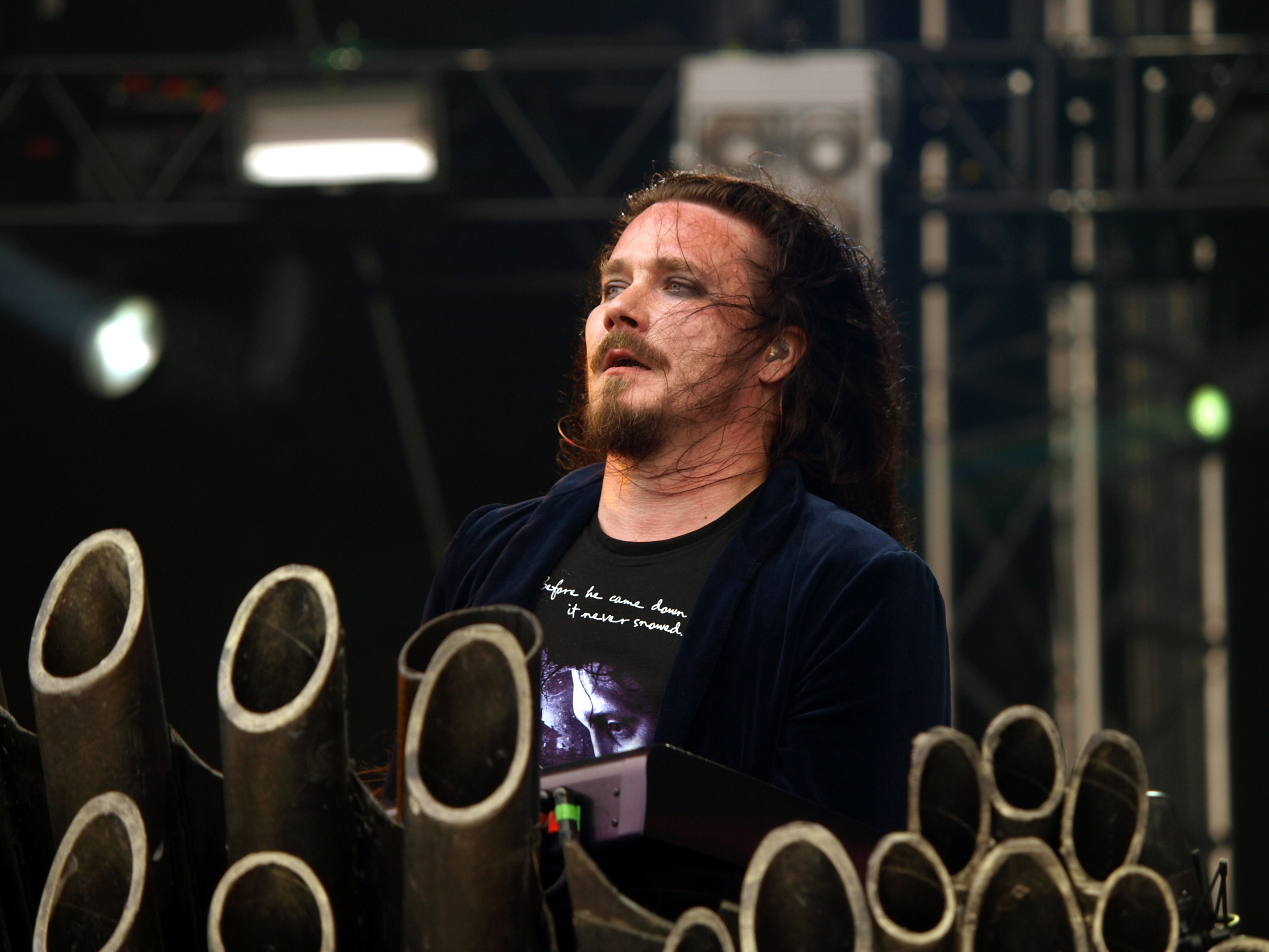 Finnish band Nightwish at Tuska Open Air 2013